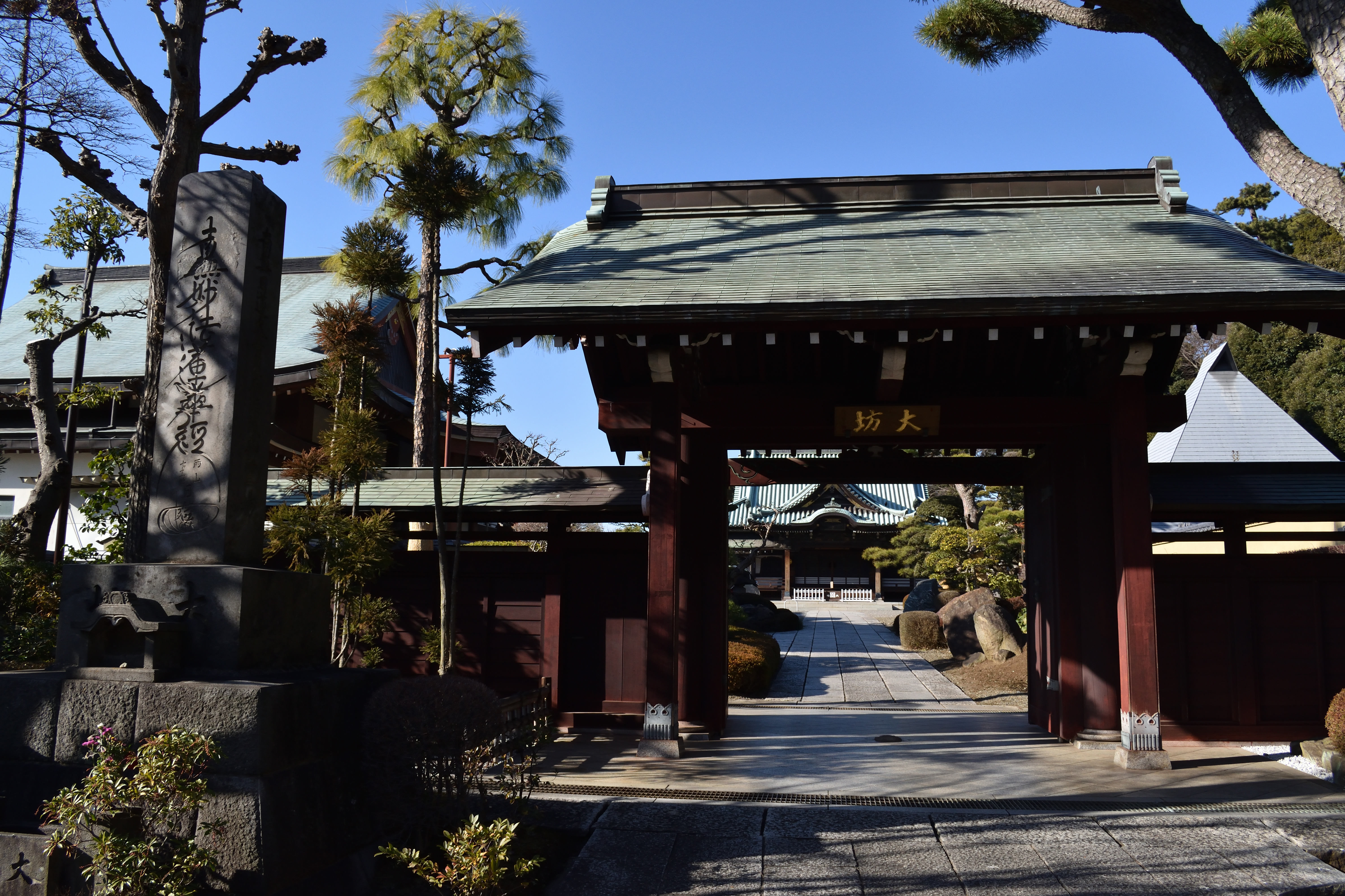 Gate of the Hongyo-ji temple in Ota Ward, Tokyo, Japan